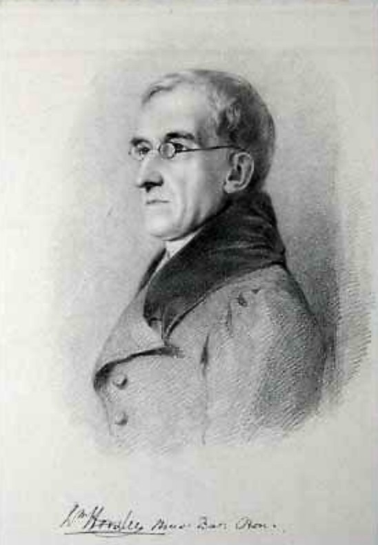 William Horsley, Mus: Bac: Oxon. Musical composer who assisted in founding the Philharmonic Society in 1813.